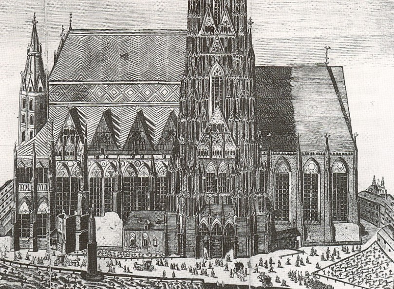 Vienna, Stephansplatz and Stephansdom around 1700